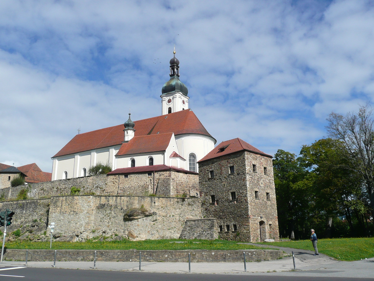 Walls and Church in Bad Kötzting